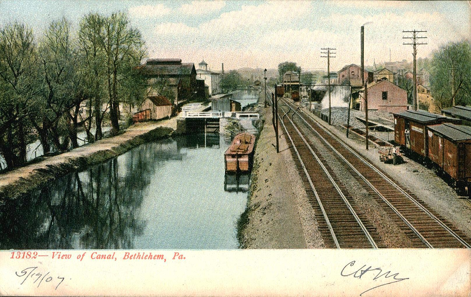 Lehigh Canal, Bethlehem, Pennsylvania.